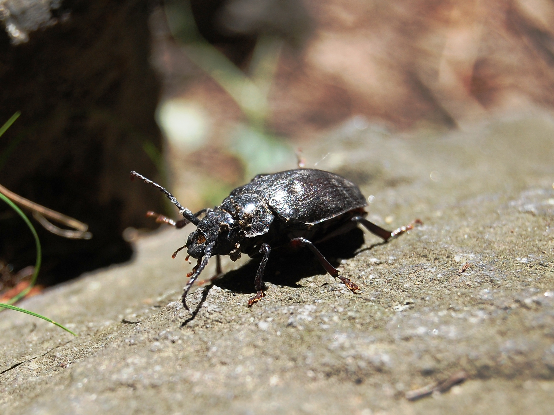 Female Tilehorned Prionus in New River Gorge, West Virginia, USA.